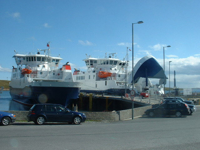 Daggri and Dagalien, the twin Yell Ferries moored at Ulsta Pier on the island of Yell, Shetland. The names mean "Dawn" and "Dusk" in Norse. Daggri IMO number: 9291614 MMSI Number: 235014768 Callsign: MDHA6 Dagalien IMO number: 9291626 MMSI Number: 235014766 Callsign: MDHK7